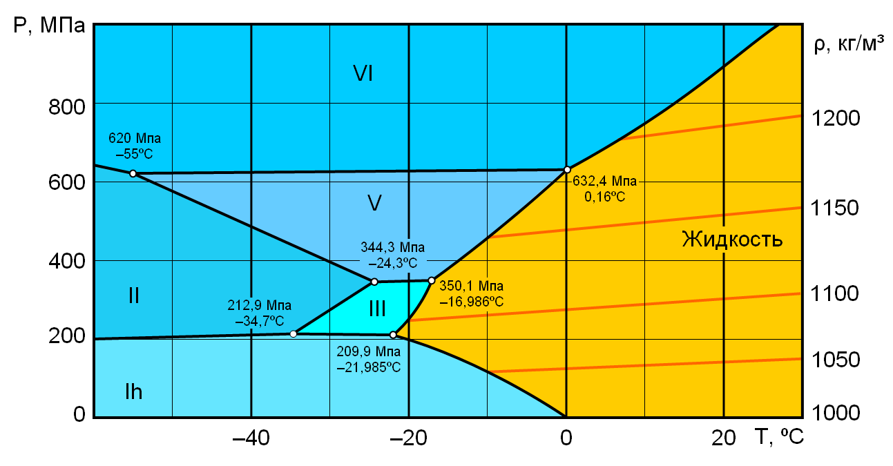 The Phase diagram of Water (0/1000 MPa, –60/+30°C)